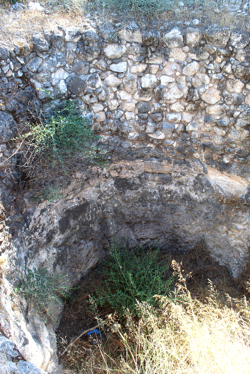 Lime pit in the Angels Forest (Ya'ar ha-Malakhim), Shahariyya, near Kiryat Gat